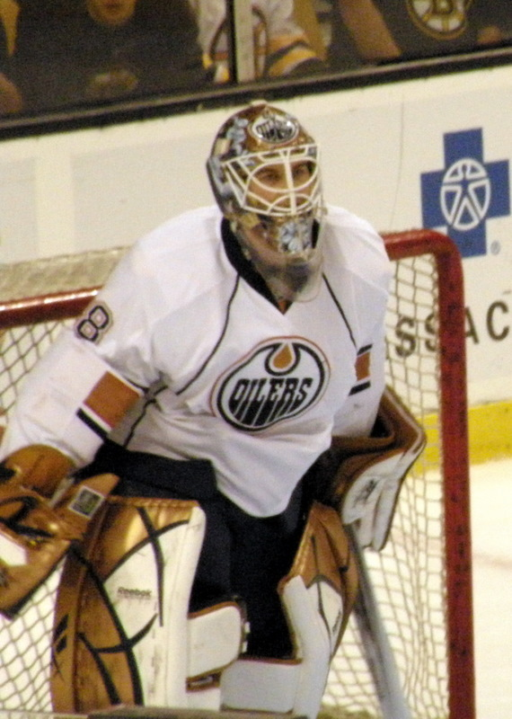 Jeff